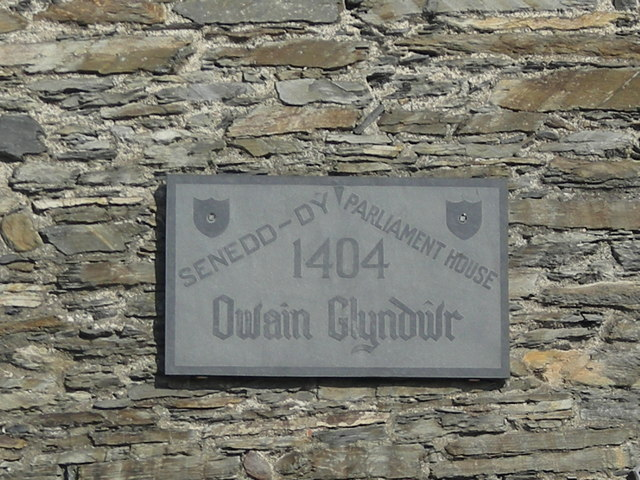 Owain Glyndŵr Wall Plaque, near to Machynlleth, Powys, Wales. Owain Glyndŵr wall plaque on his parliament building in Machynlleth.